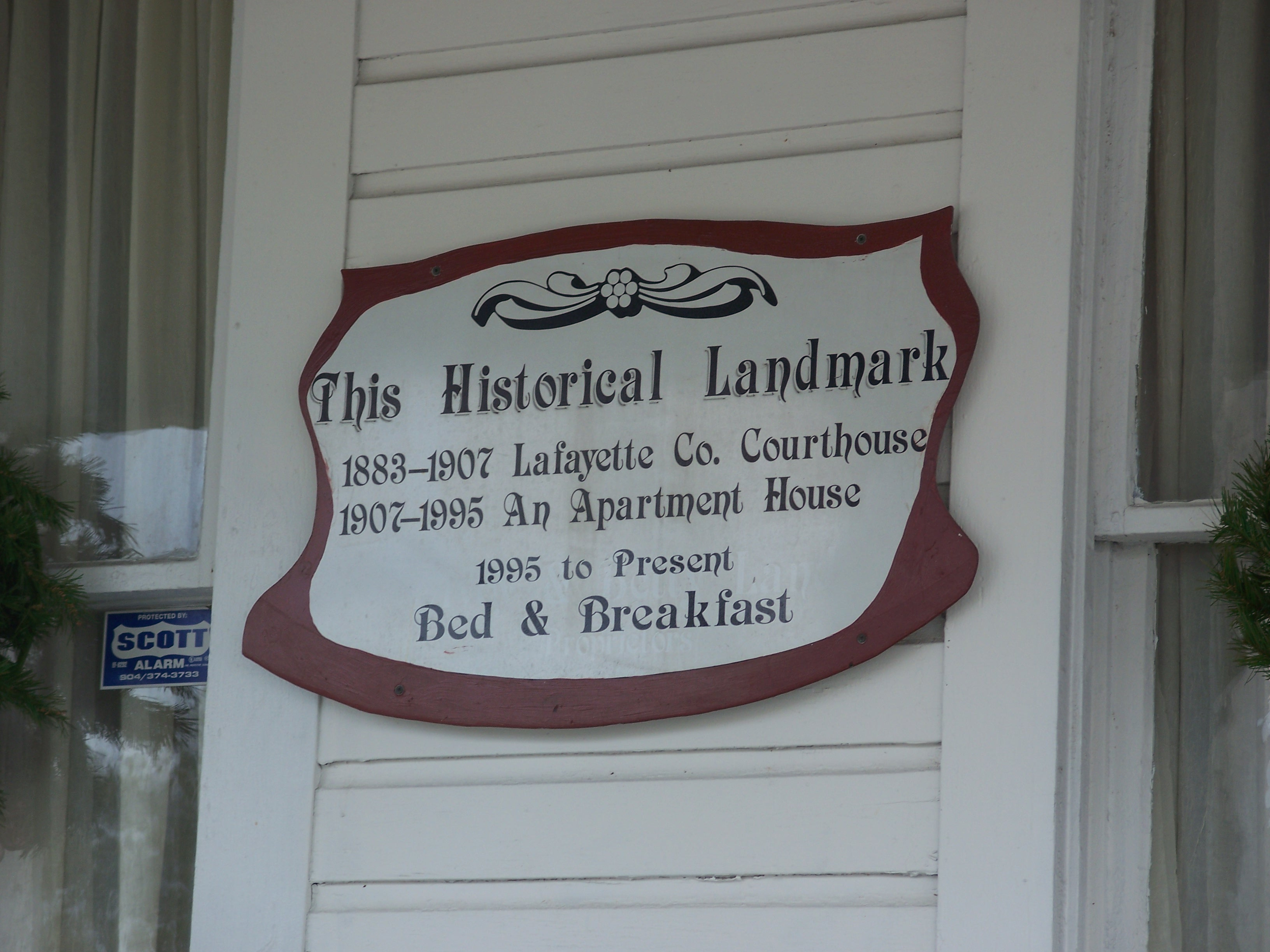 Mayo, Florida: Old Lafayette County Courthouse, now a bed and breakfast. Sign about building's history.